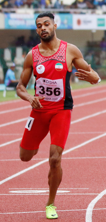 Athletes during 22nd Asian Athletics Championships in Bhubaneswar.